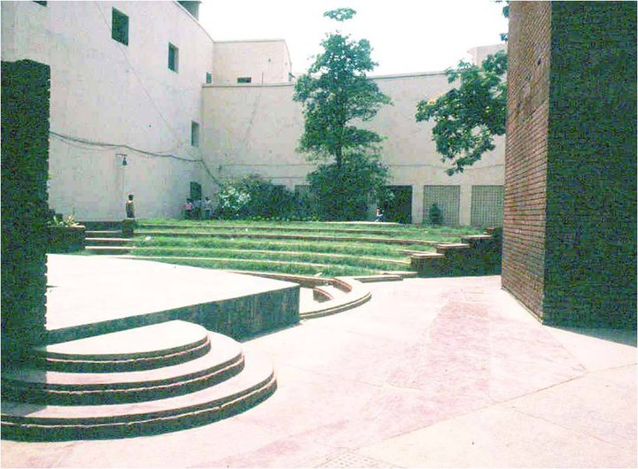 Bharatiya Vidya Bhavan's Delhi has one of the few India's Open air auditoriums.